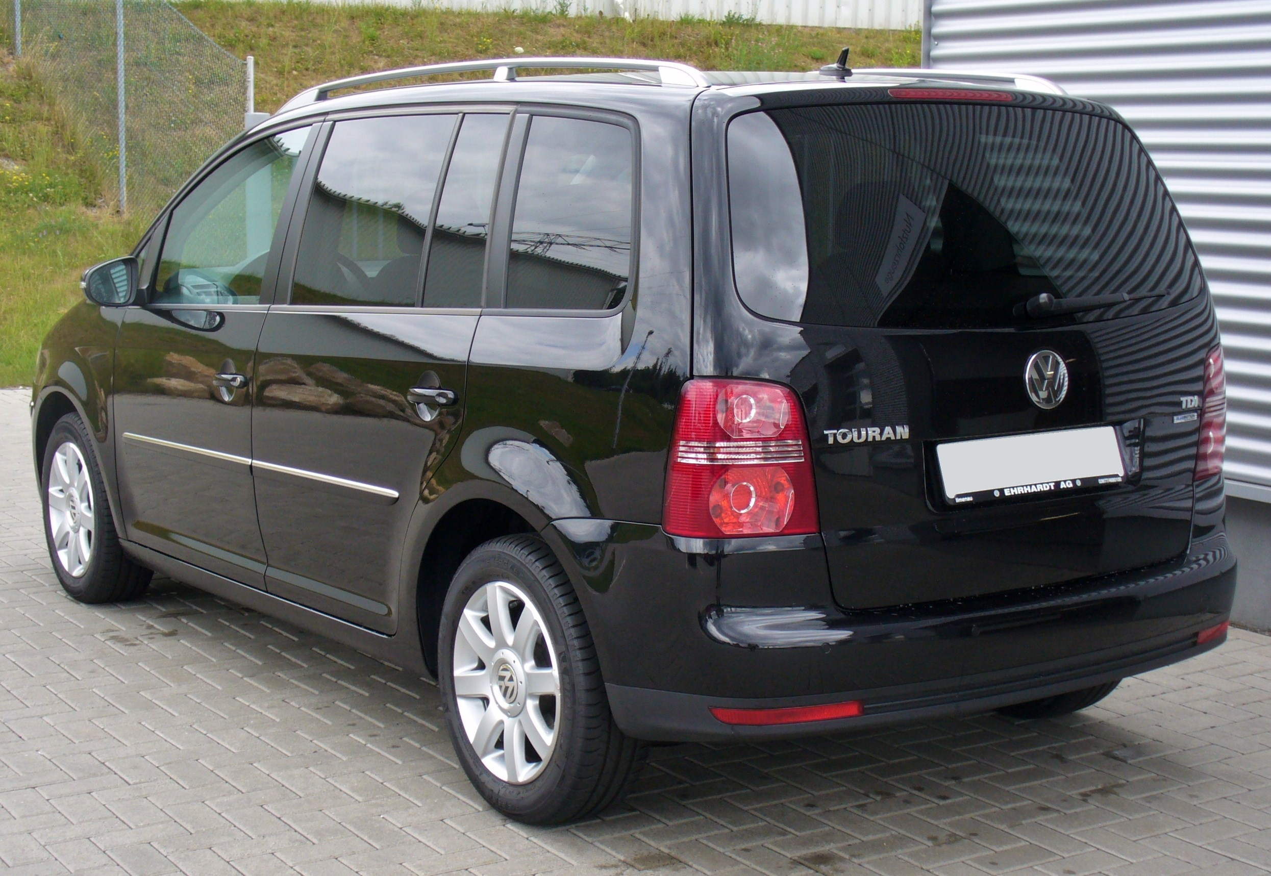 VW Touran Facelift